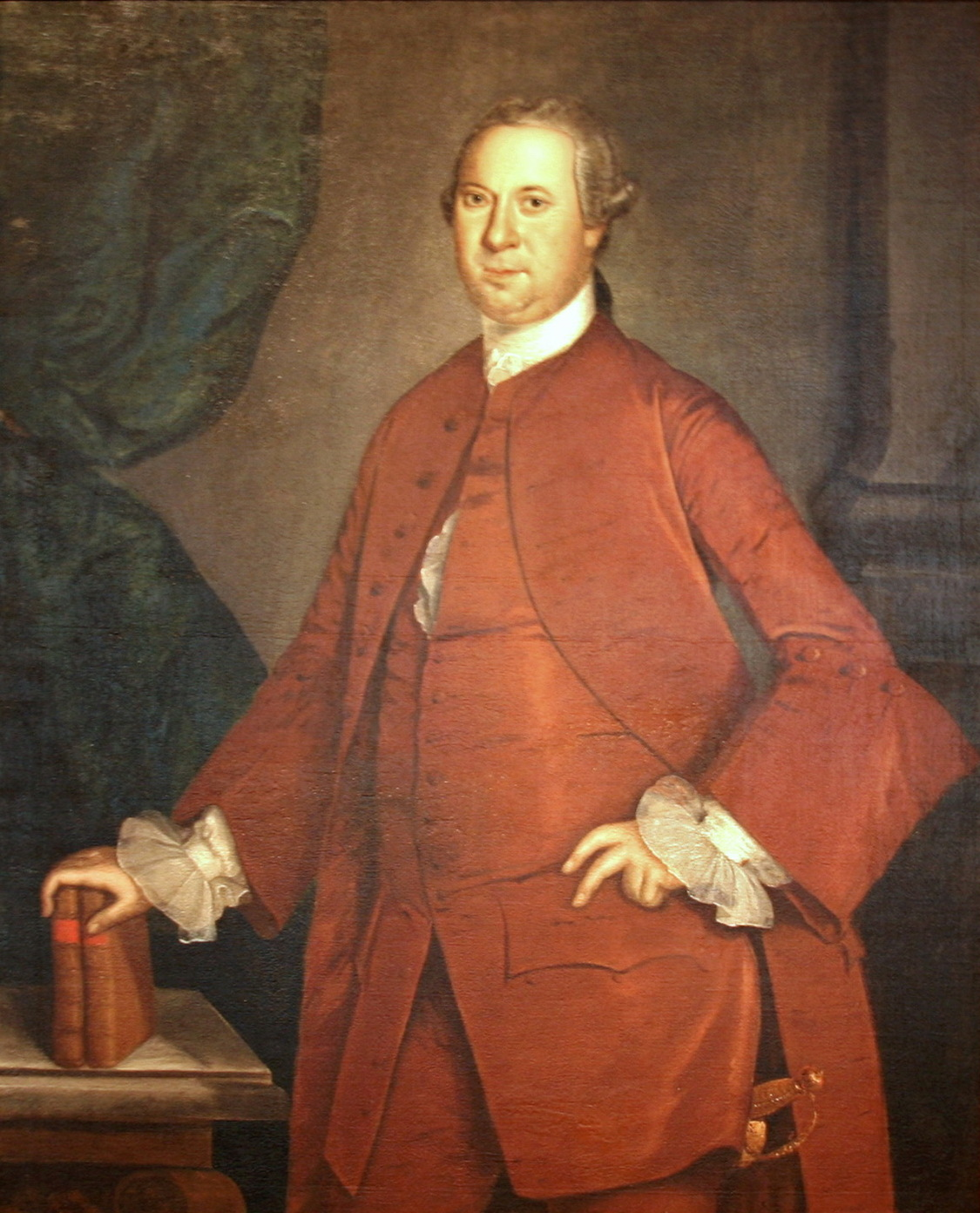 Oil on canvas portrait of Daniel of St. Thomas Jenifer; original size without frame 126×100.5 cm.